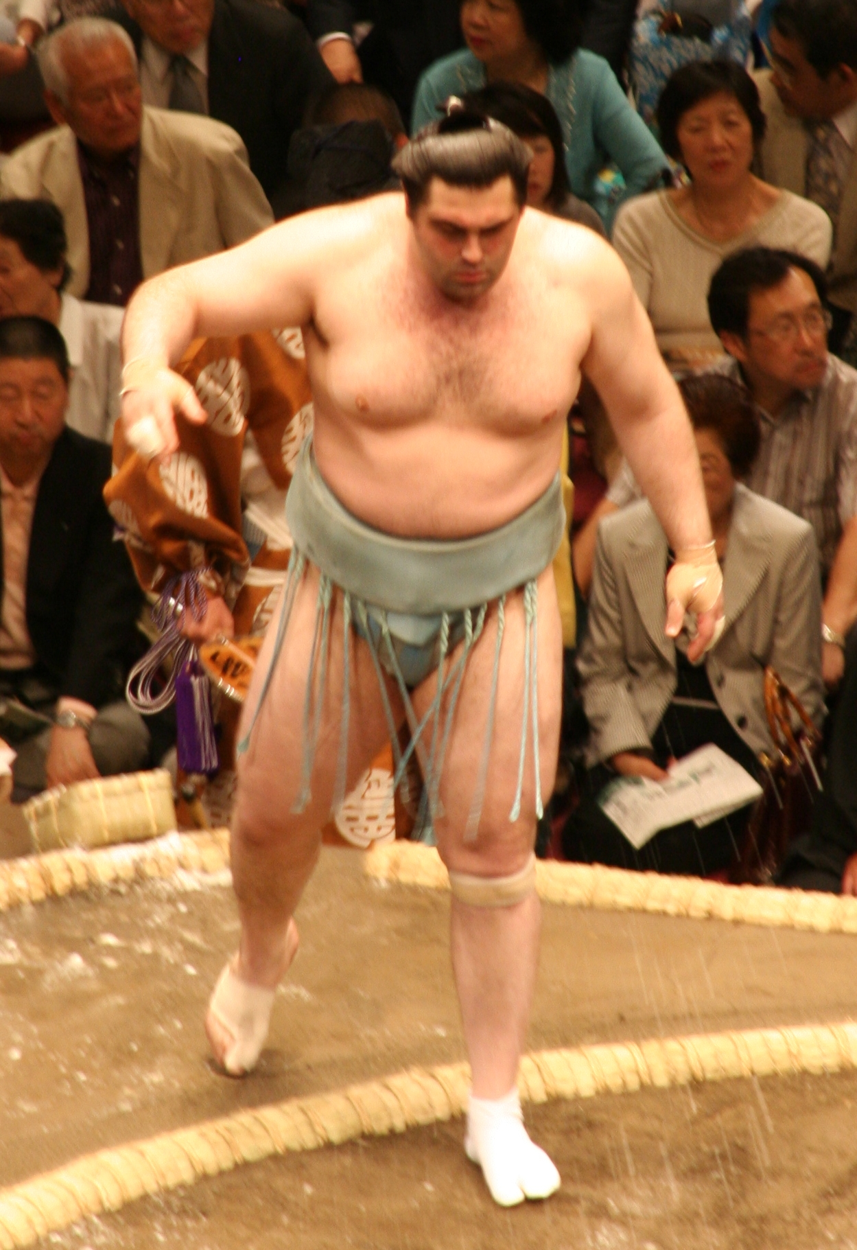 Sumo Wrestler Kokkai Futoshi on the first day the of May Tournament 2007 in Tokyo.